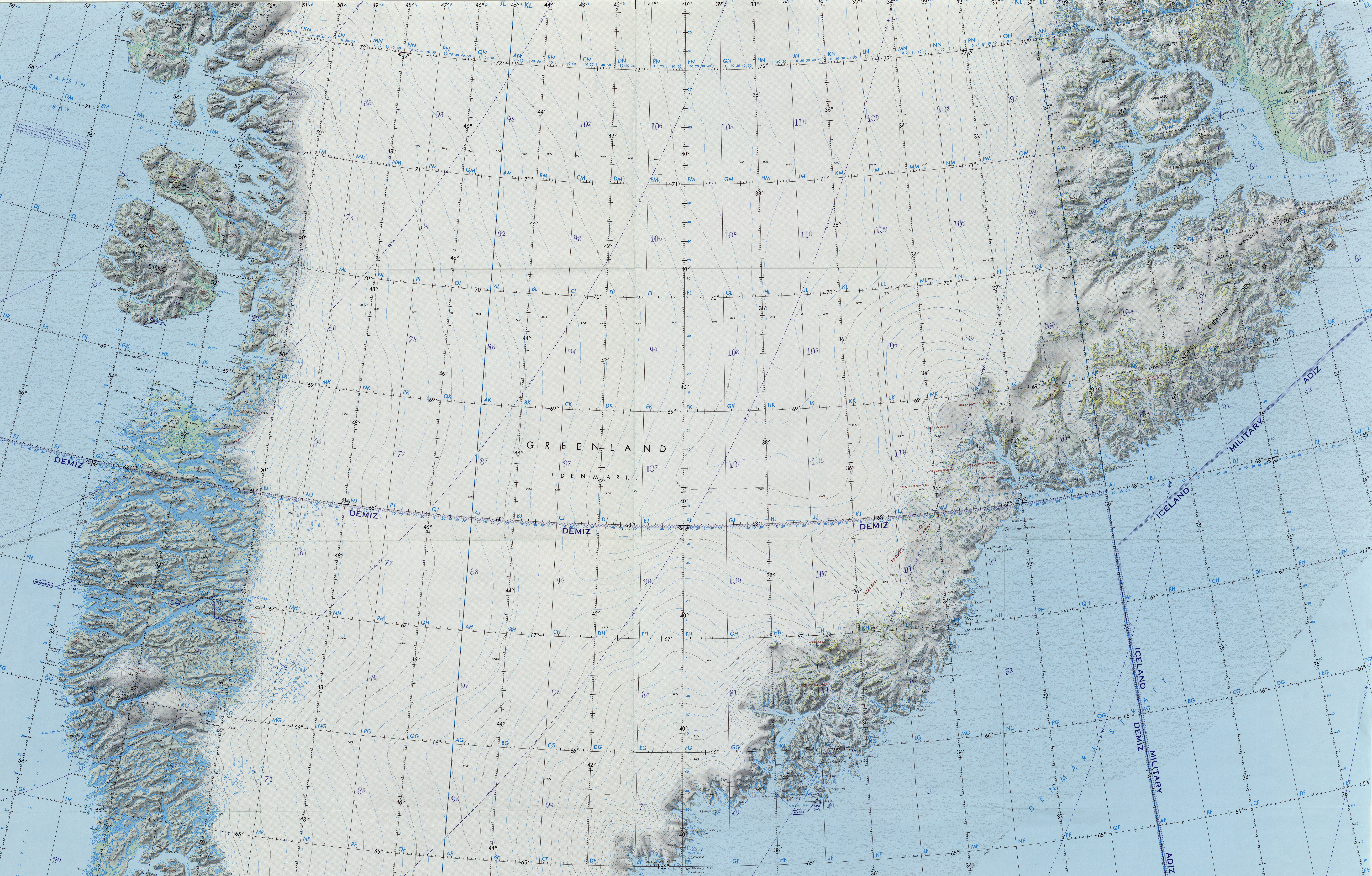 1:1,000,000 scale Operational Navigation Chart, Sheet C-13, 3rd edition. Covers Greenland (Denmark). Lambert Conformal Conic Projection. Standard Parallels 65 20N and 70 40N. Center longitude 40W.